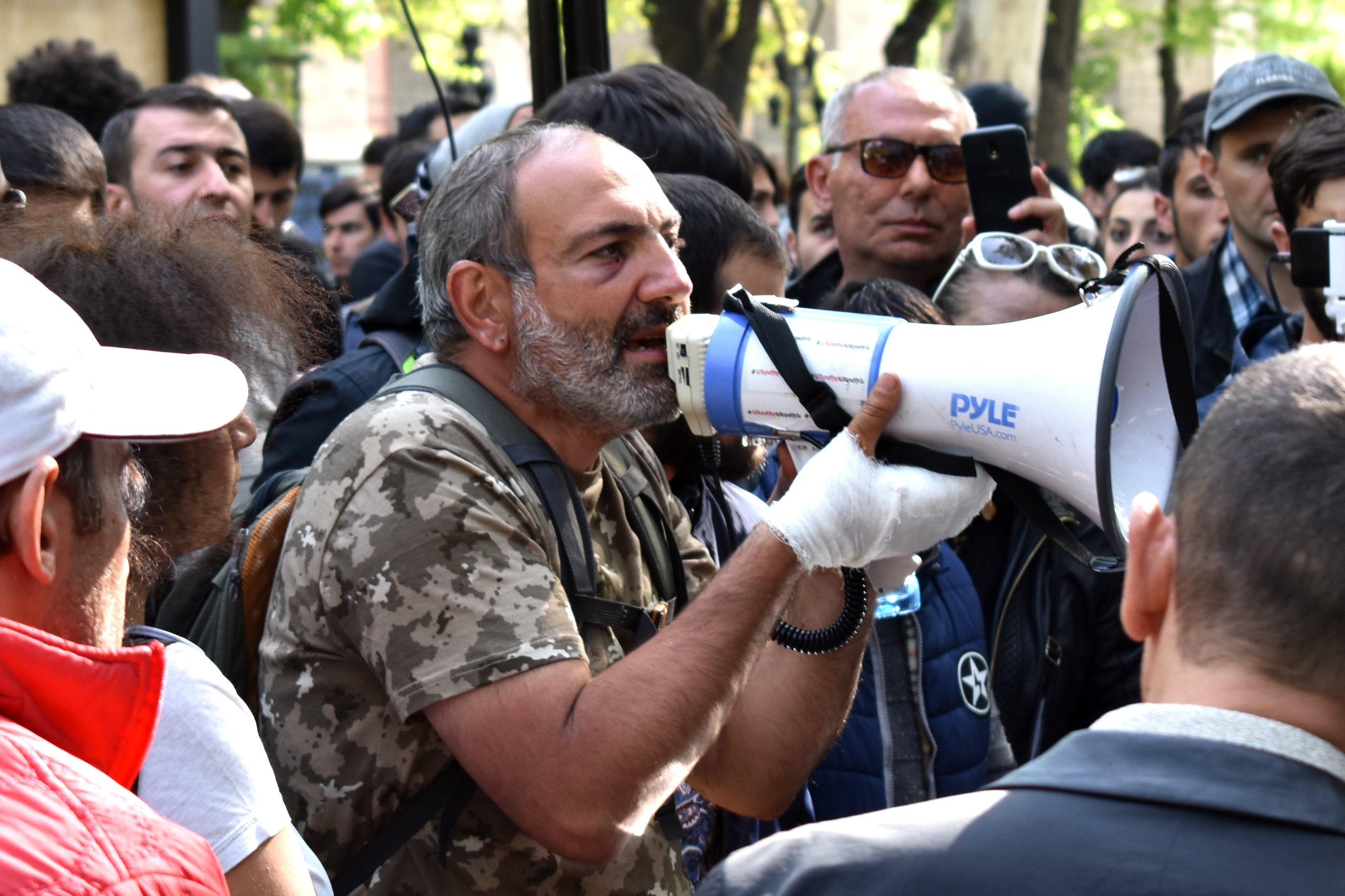 during the 2018 revolution